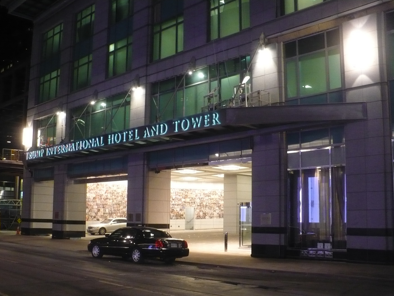 Entrance to the Trump International Hotel and Tower on Adelaide Street in Toronto